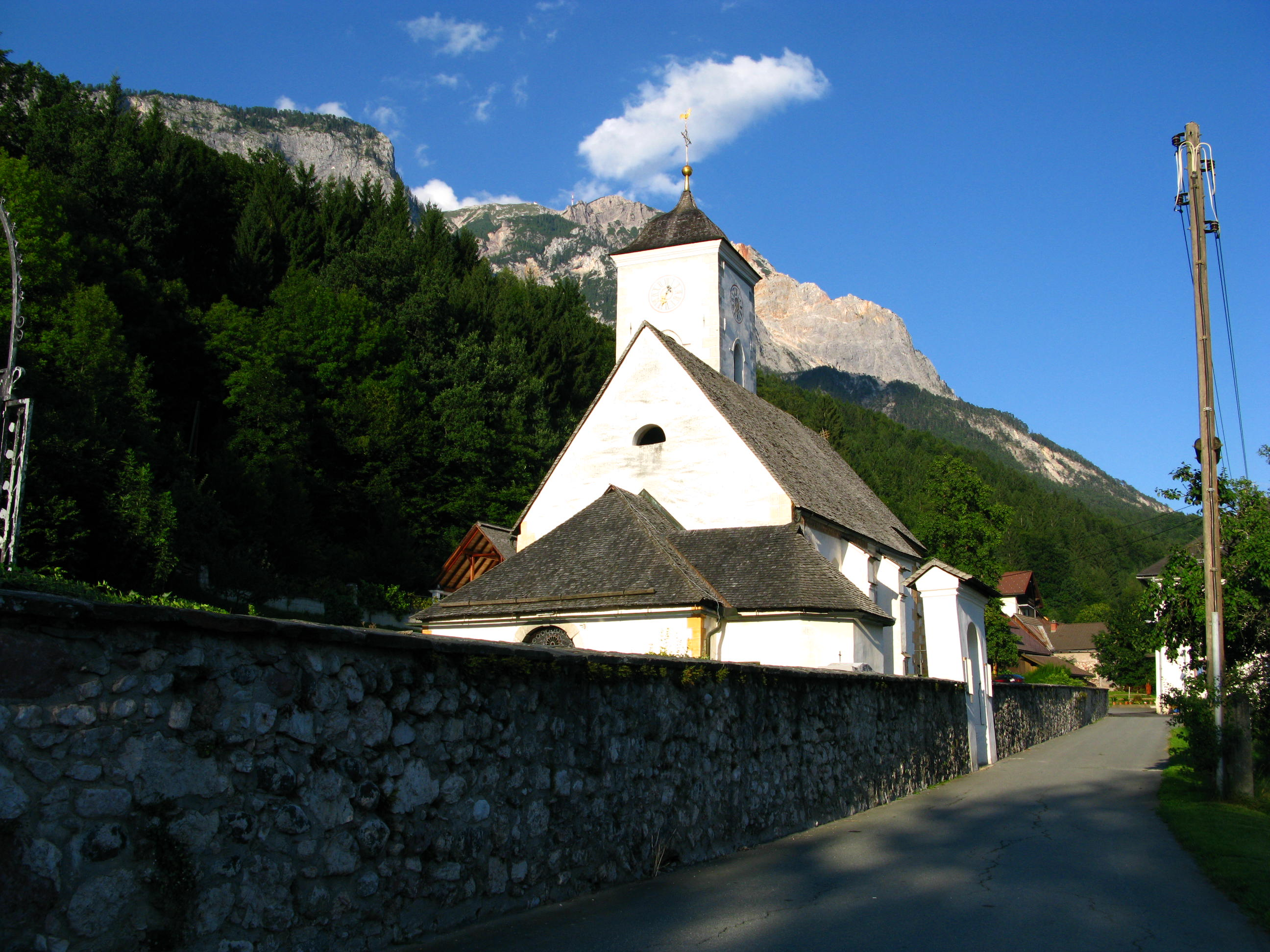 Kirche von Saak in Nötsch im Gailtal in the south of Carinthia in Austria / EU.